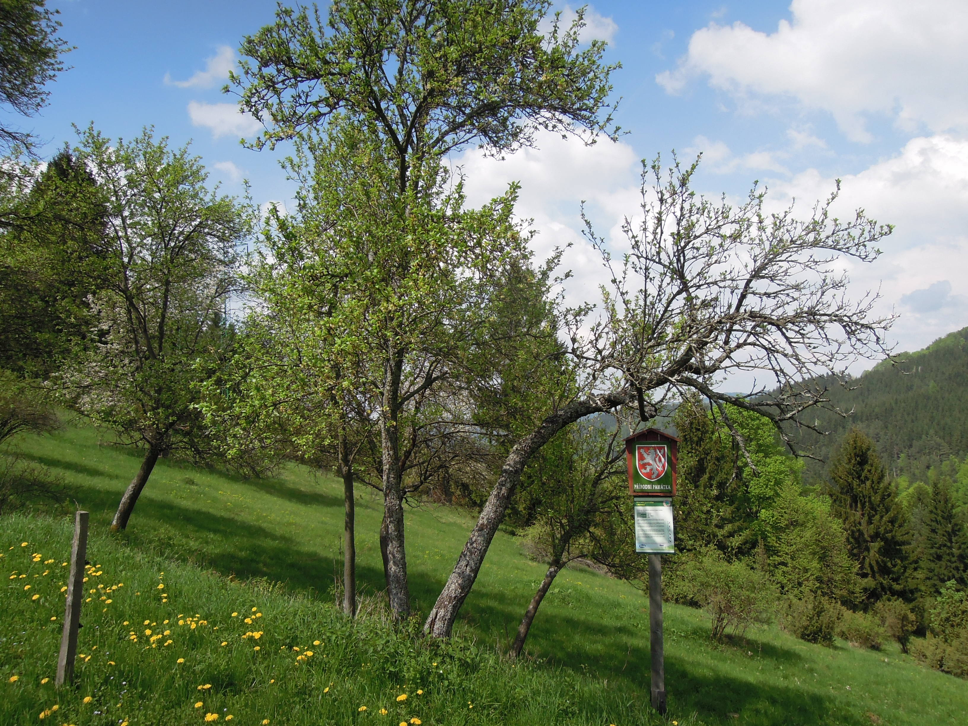 Uherská natural monument in Zděchov, Vsetín District, Zlín Region, Czech Republic